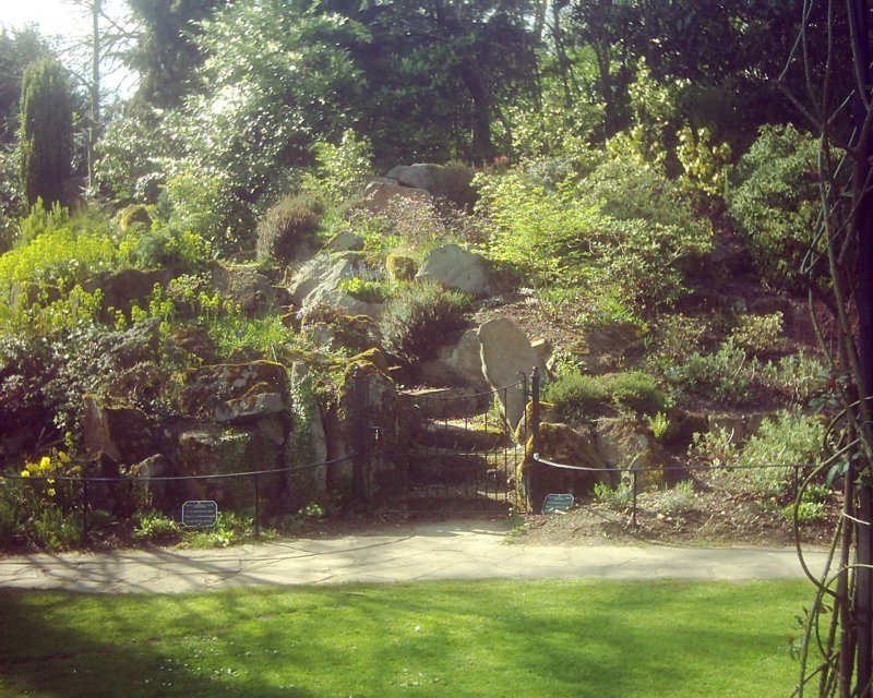 Warwick Castle Garden Photograph Part of the Rose Garden. Taken by Jack Saunders on 2004-05-01. This image is hereby granted into the public domain.